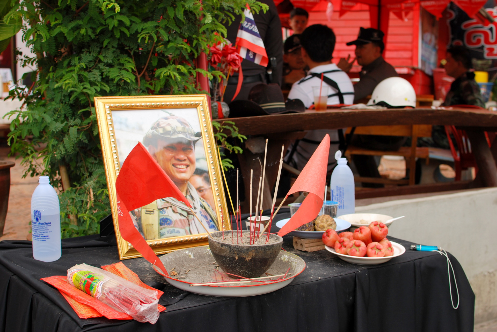 A commemoration shrine at the former "Red-Shirt" headquarters of Chiang Mai for the self appointed "red shirt" military leader Khattiya Sawasdipol, a.k.a. "Seh Daeng" (Red Commander), who was shot in the head by an unknown sniper on May 13th in Bangkok and died from his wounds on May 17th, 2010. The "Red Shirt" headquarters of Chiang Mai is also the headquarters of the "Thai Red News" radio station. Computers and broadcasting material were confiscated. According to the lieutenant-colonel of the Thai army in charge of the operation, two so-called home-made "ping pong" bombs were found: one the size of a ping pong ball, the other the size of an orange.